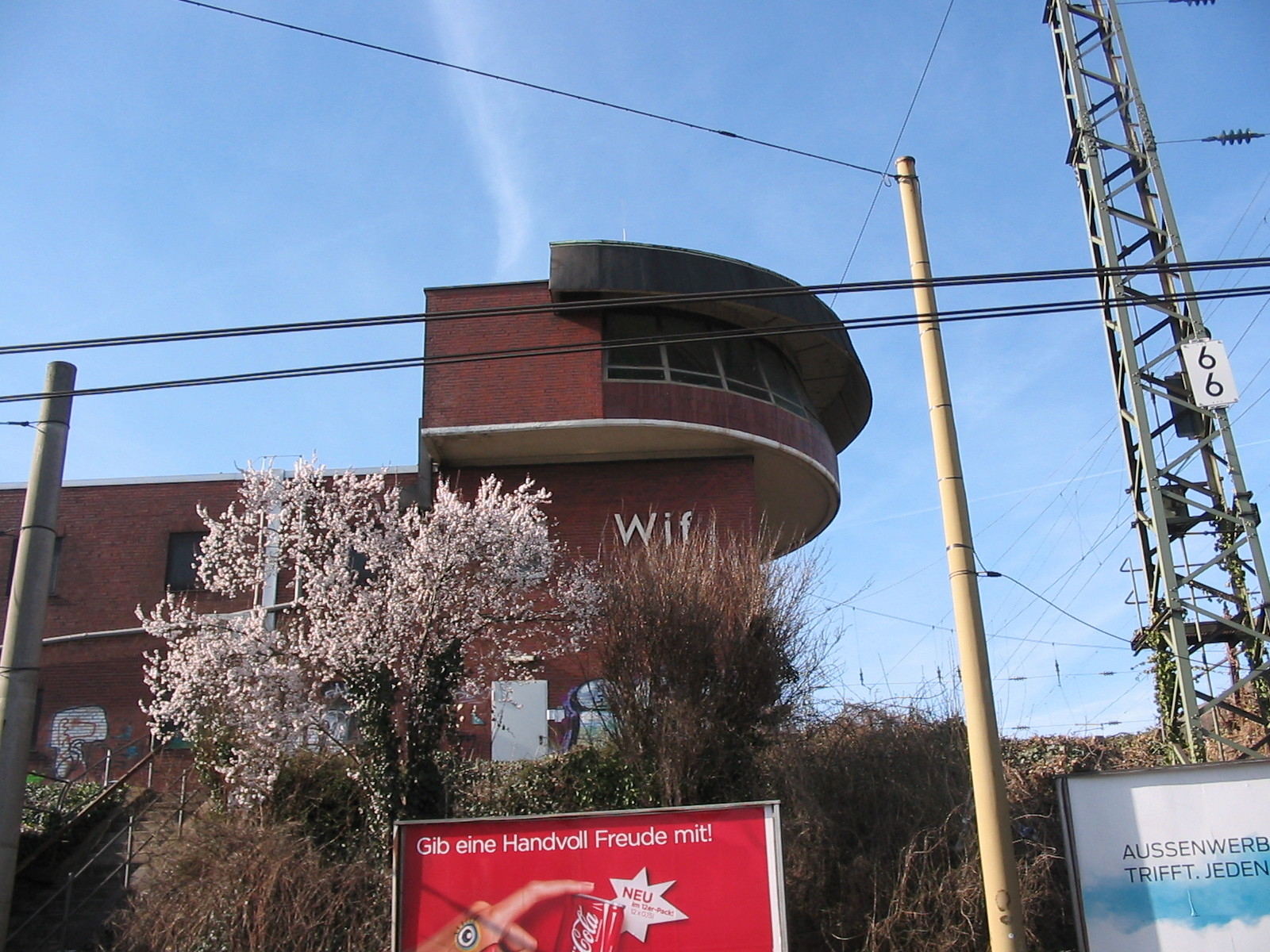 Signal box Wif in Witten